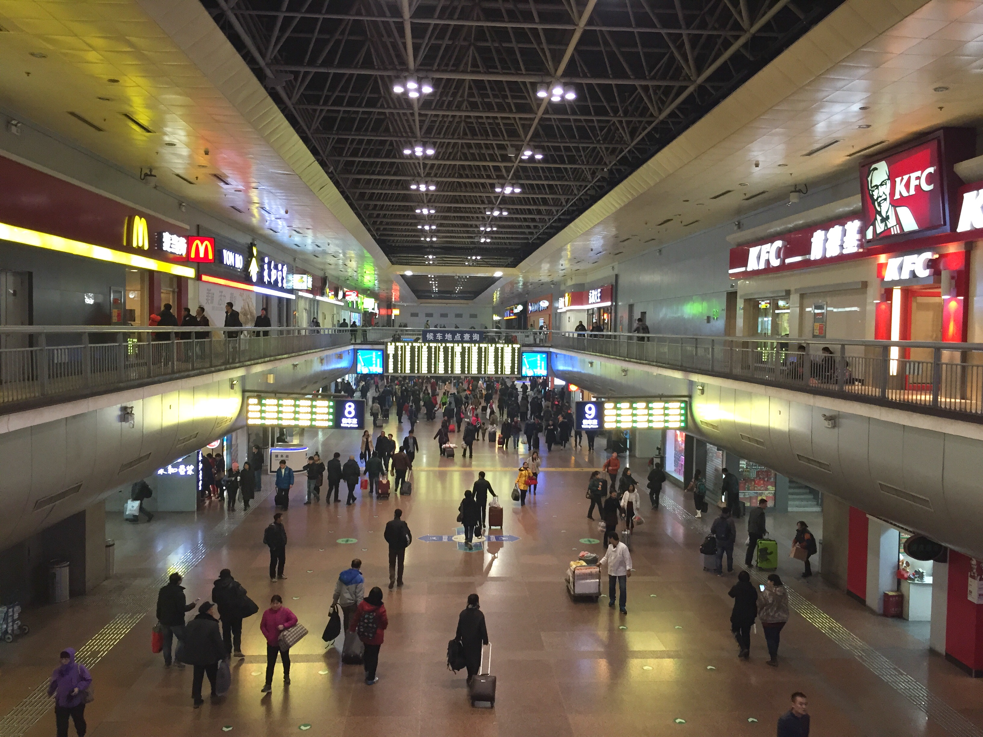 First time to go on the 3rd floor.